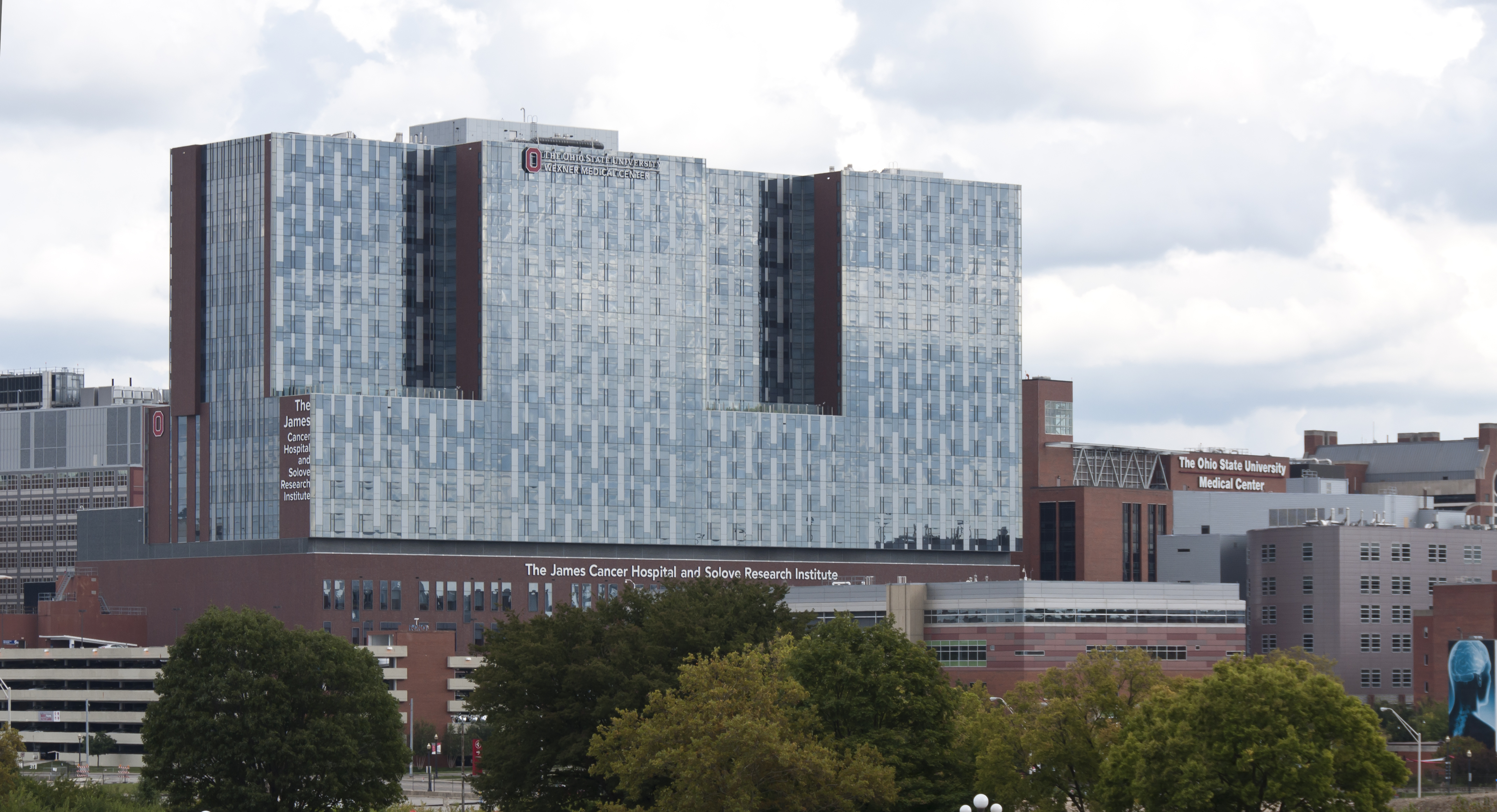 The Arthur G. James Cancer Hospital and Richard J. Solove Research Institute on the campus of The Ohio State in Columbus, Ohio.